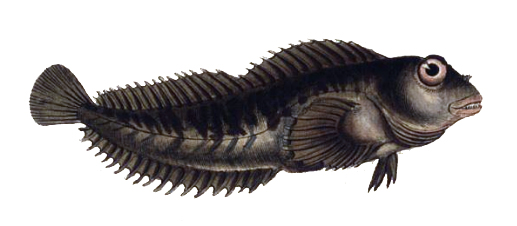 Lipophrys pholis